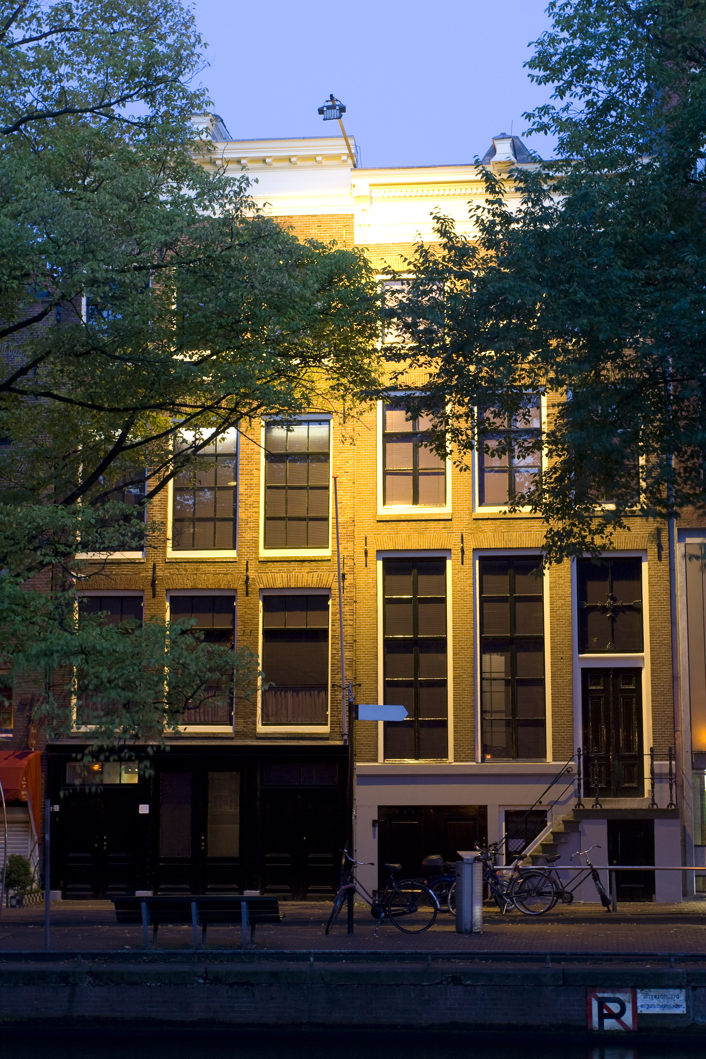 A view of the Anne Frank House in Amsterdam, The Netherlands at dusk.